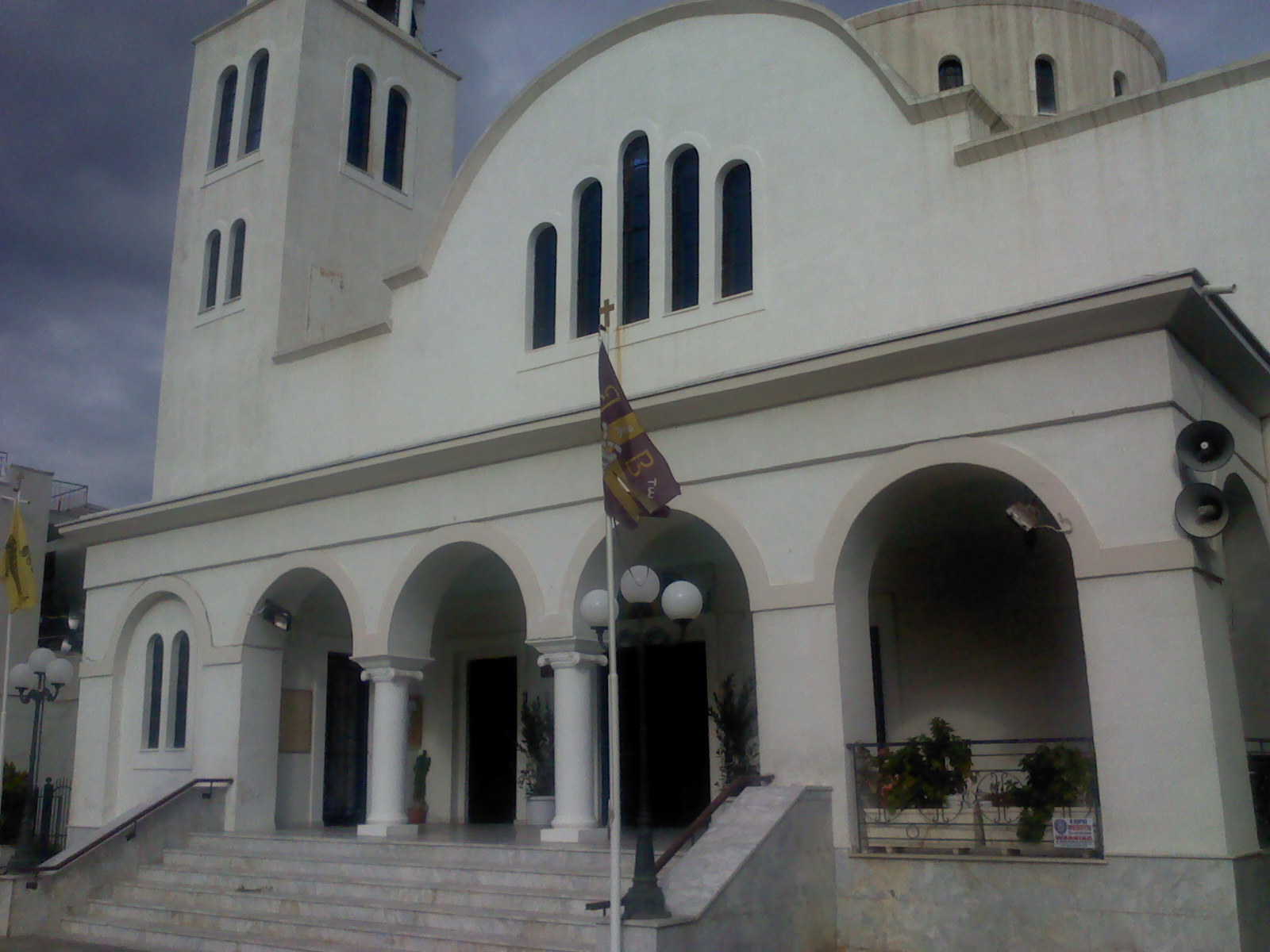 Agia Marina Nea Makri